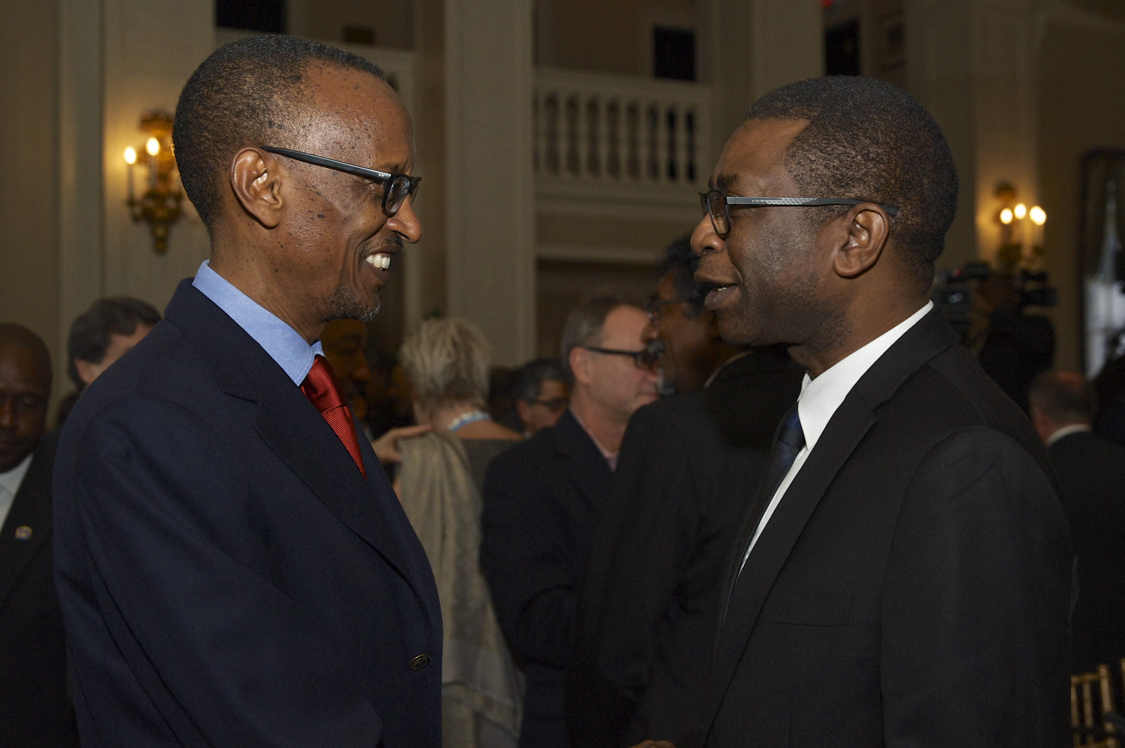 H.E. President Paul Kagame with Former Minister and world-renowned musician Youssou N’dour at the 8th Broadband Commission for Digital Development Meeting, New York City, New York, 21st September 2013.